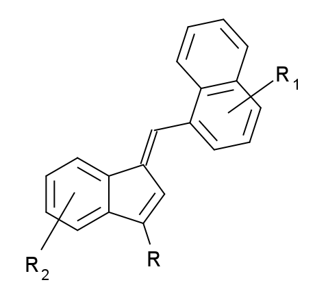 General structure of naphthylmethylideneindenes